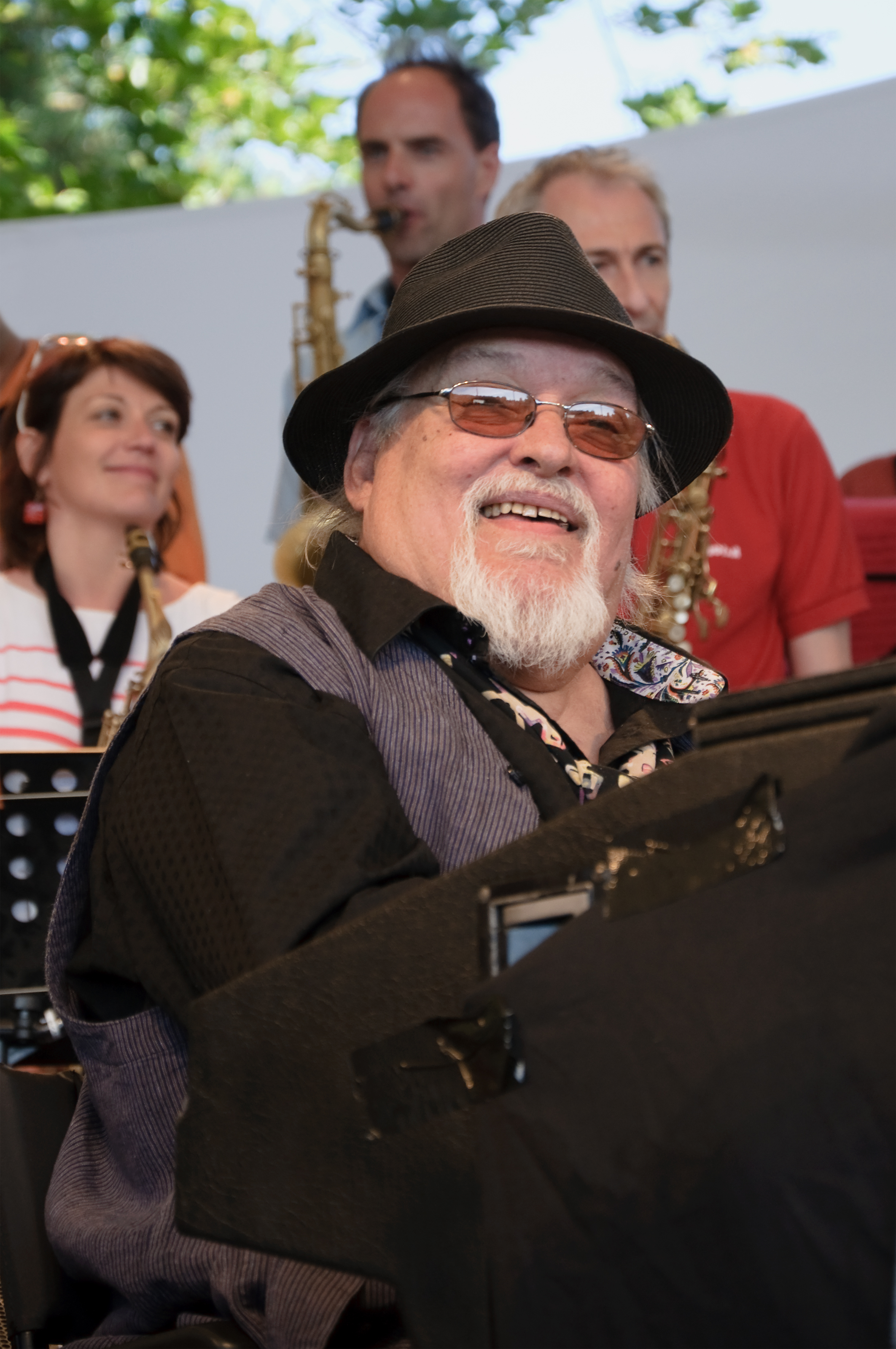 Eddy Louiss on stage with his big band, the Multicolor Feeling Fanfare, Paris Jazz Festival 2011, Parc floral de Paris, France.